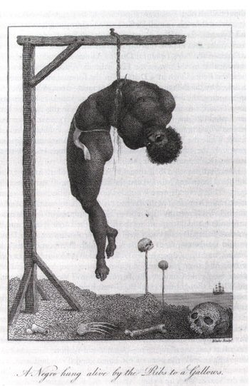 "A Negro Hung Alive by the Ribs to a Gallows" illustration by William Blake for Captain John Stedman, 1796. (See also: Aphra Behn).